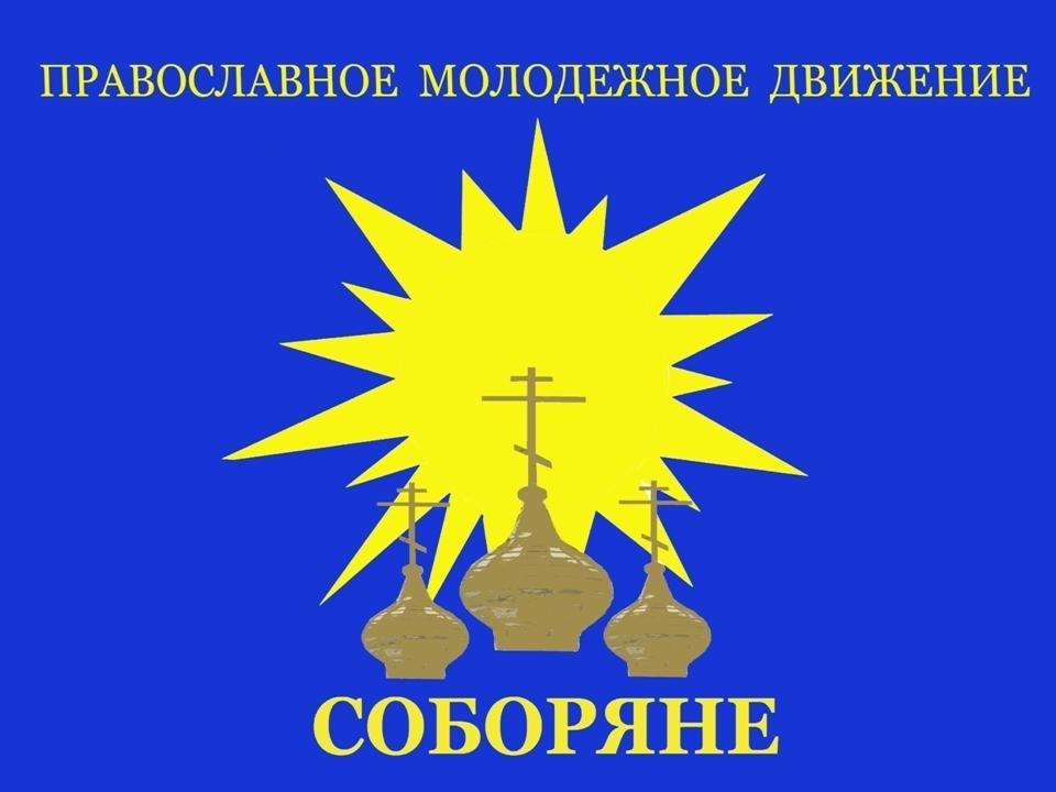 Soboryane